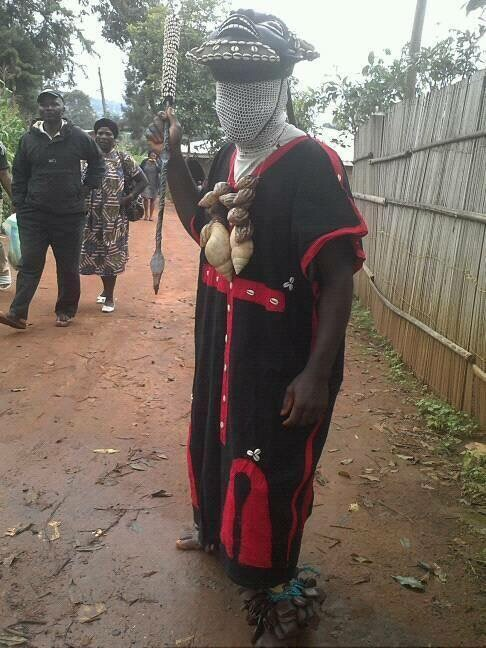 This is an image of Cultural Fashion or Adornment from Cameroon